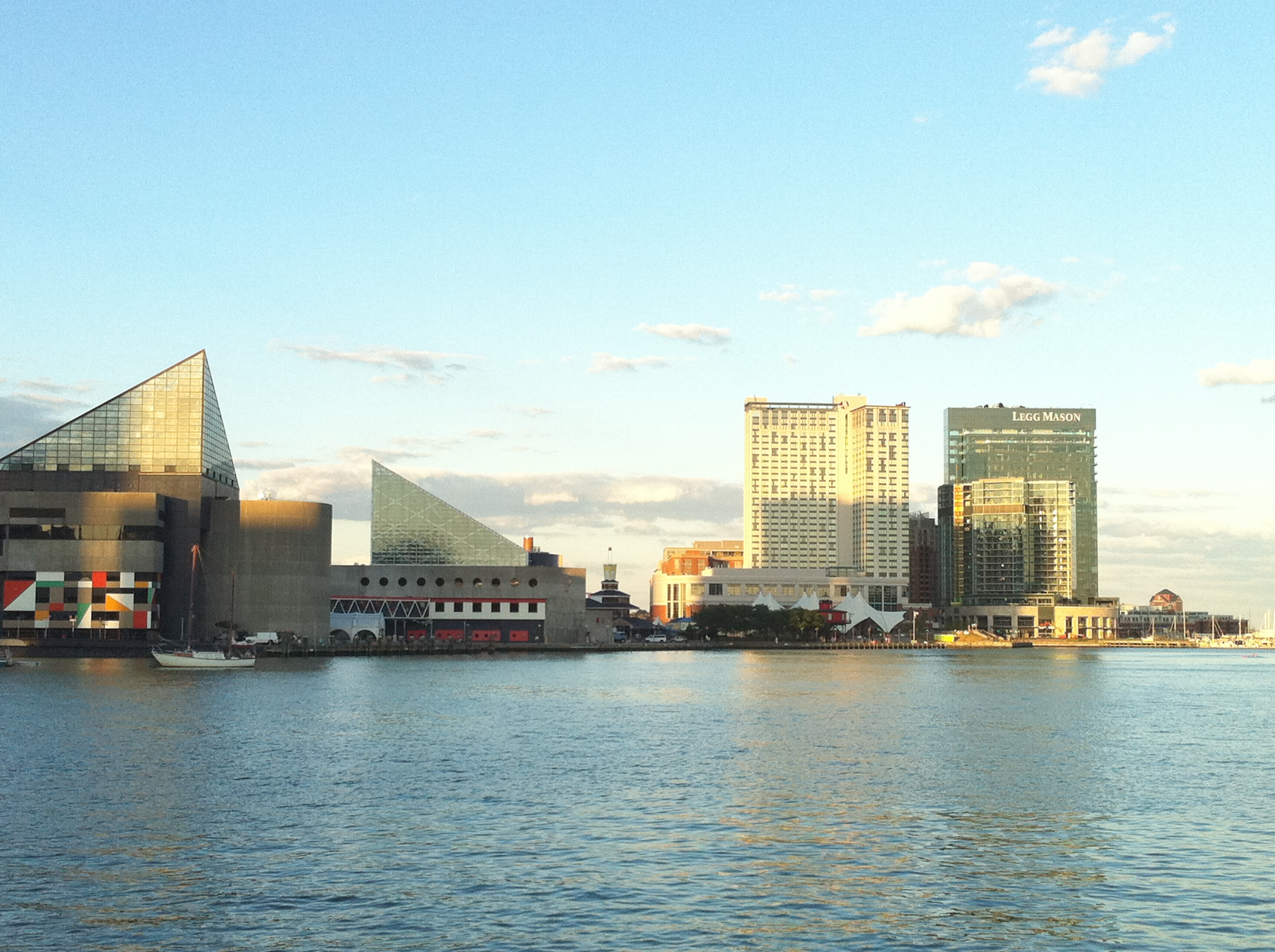 One of the beautiful view from Inner Harbor